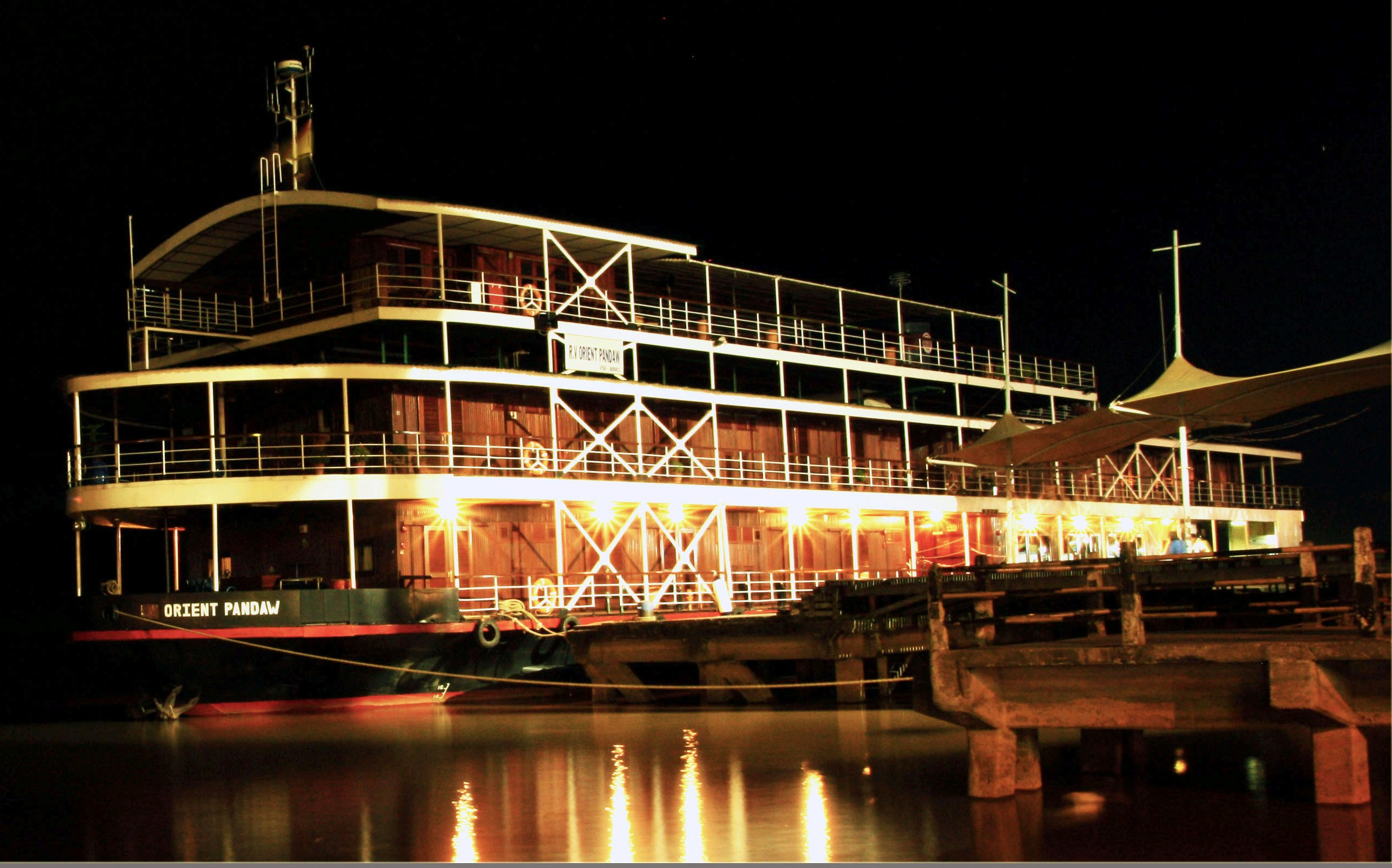 Pandaw river cruise tied to Sibu wharf terminal at night, Malaysia.